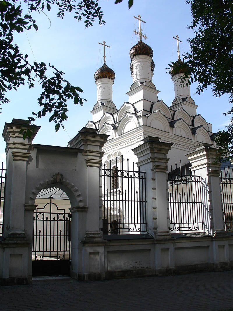 St. Nicholas in Golutvin (Yakimanka District), Moscow